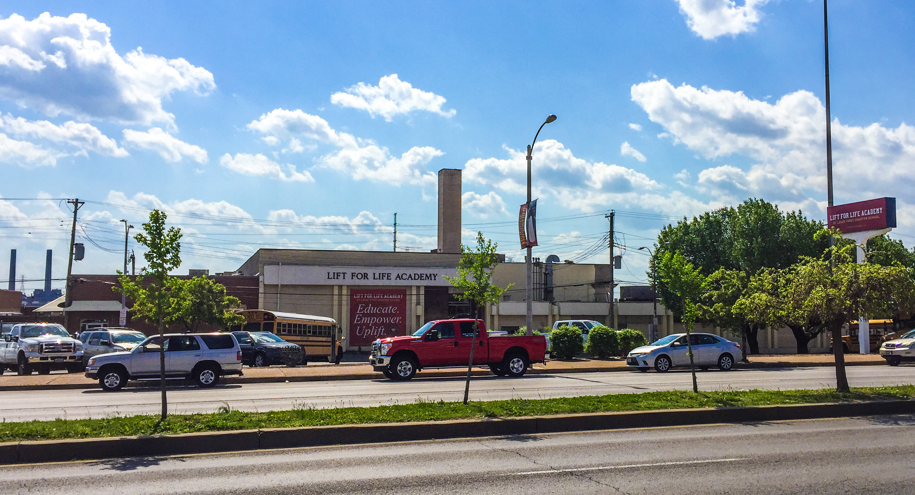 Lift for Life Academy, Saint Louis, MO